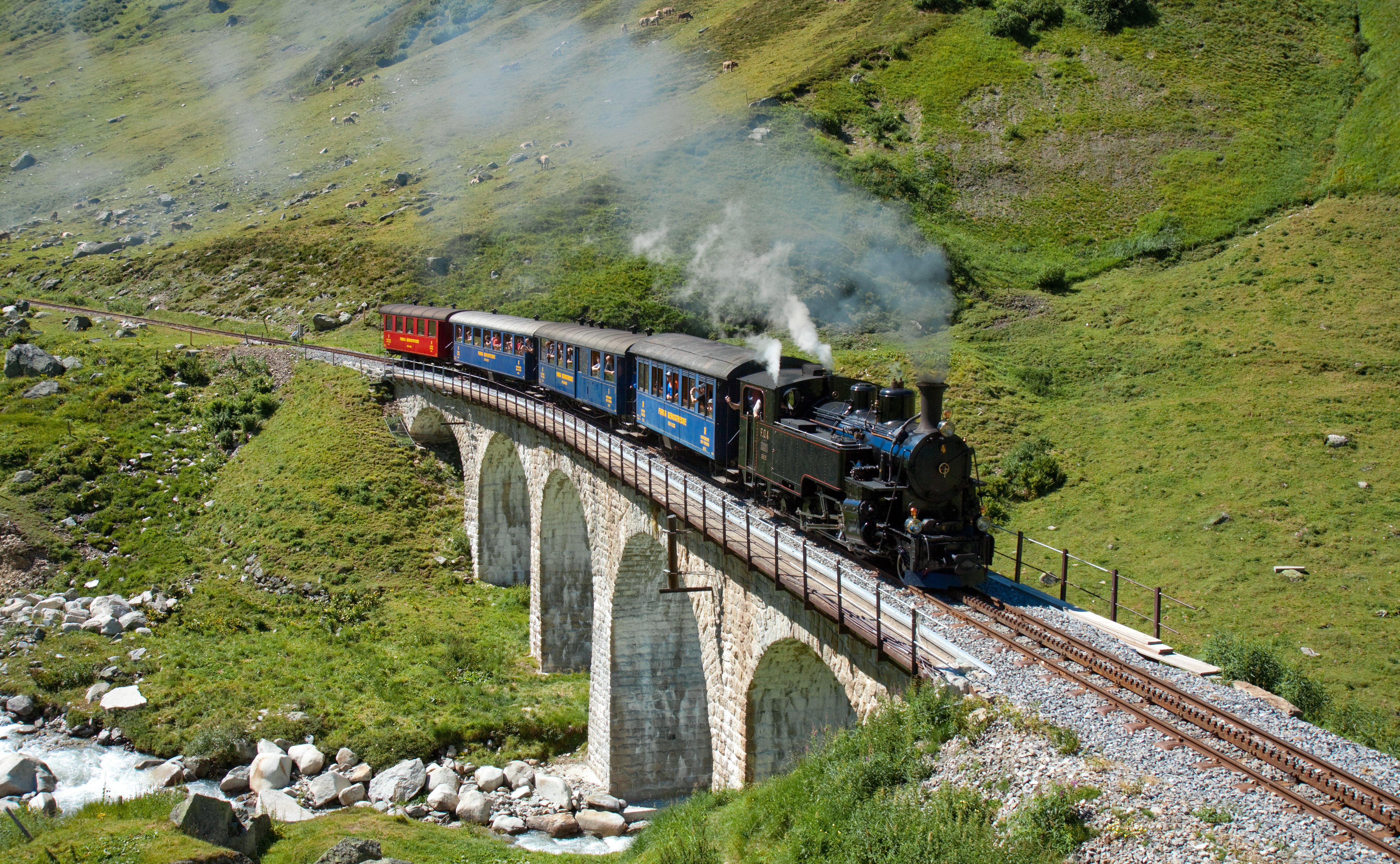 Rack-and-adhesion locomotive HG 3/4 nr. 4 of the Dampfbahn Furka-Bergstrecke crossing the Steinstafelviadukt, which is part of the rack rail section from the station Furka down to Tiefenbach.